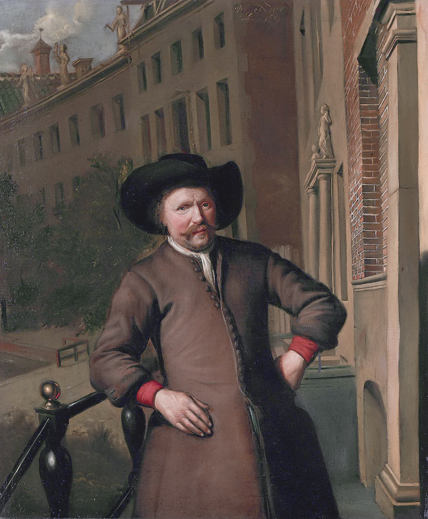 Portrait of Hendrick Staets oil on canvas 39,4 x 32,4 cm signed t.c.: M. Naiveu Anno / Anno 1683